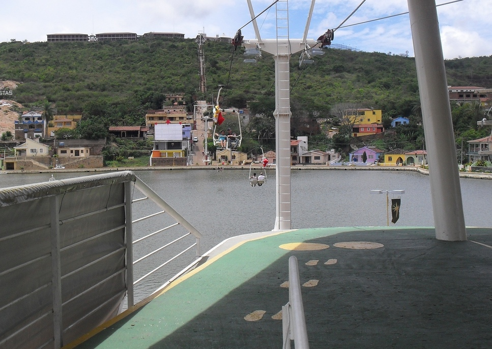 Triunfo, Pernambuco - Brazil